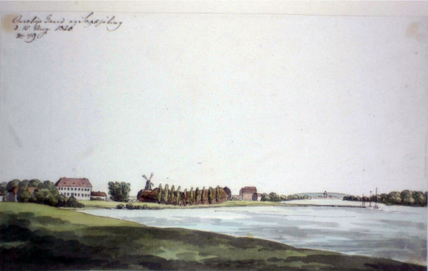 Ourebye Gaard og Saxkjöbing d. 13. Aug. 1820.